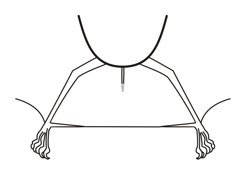 According to Husson, 1962 shows interfemoral membranes, calcar, feet and tail in bats of genus Trachops